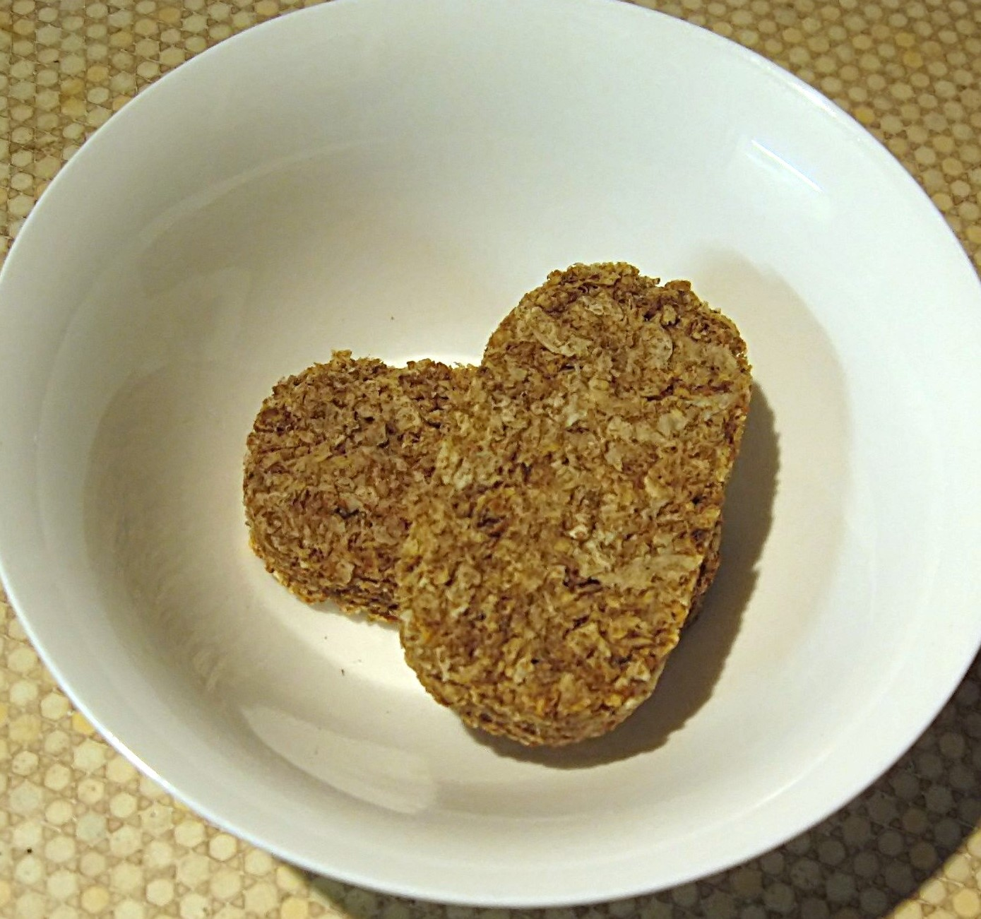 Two Weetabix in a bowl